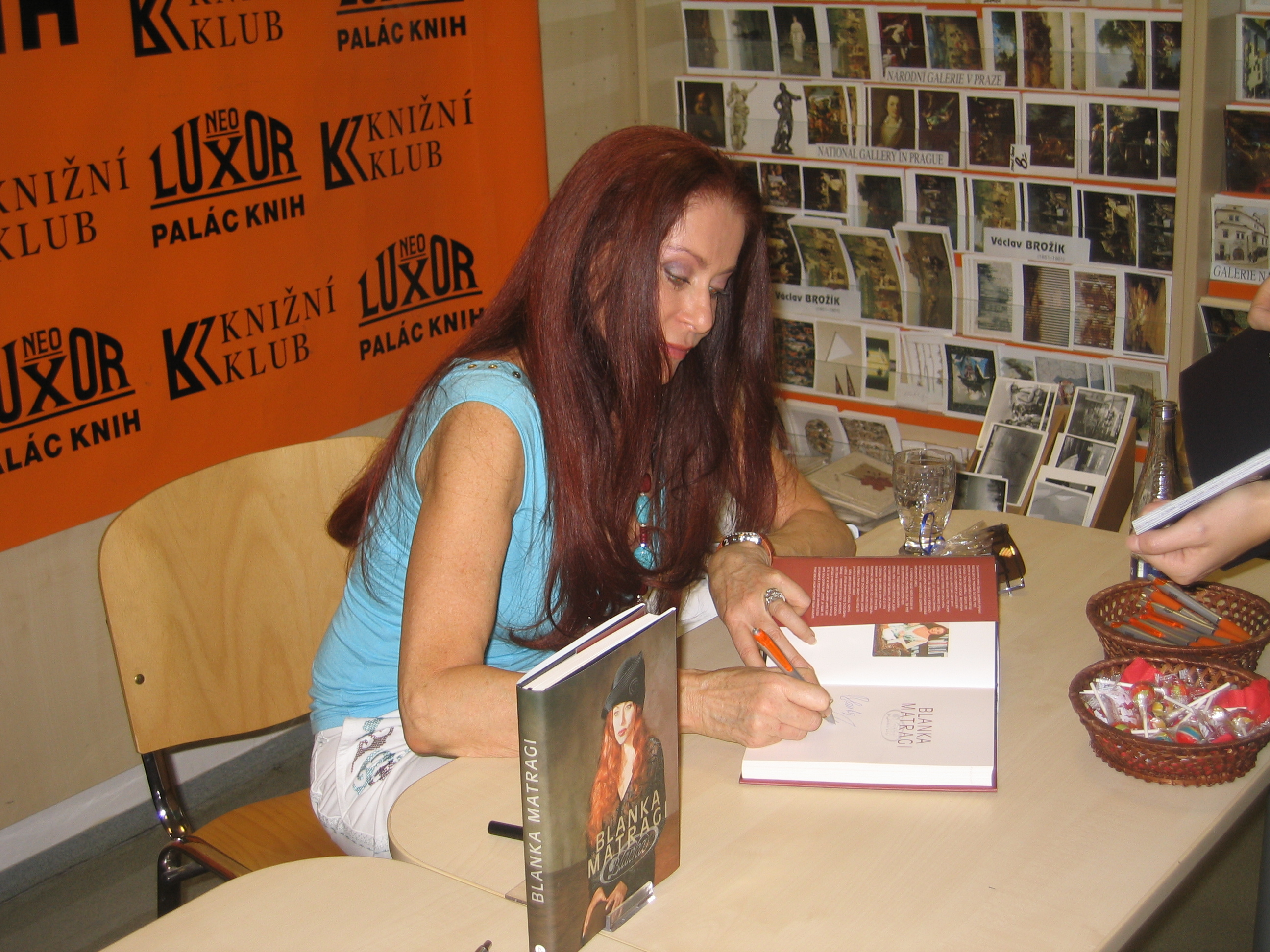 Blanka Matragi – fashion designer